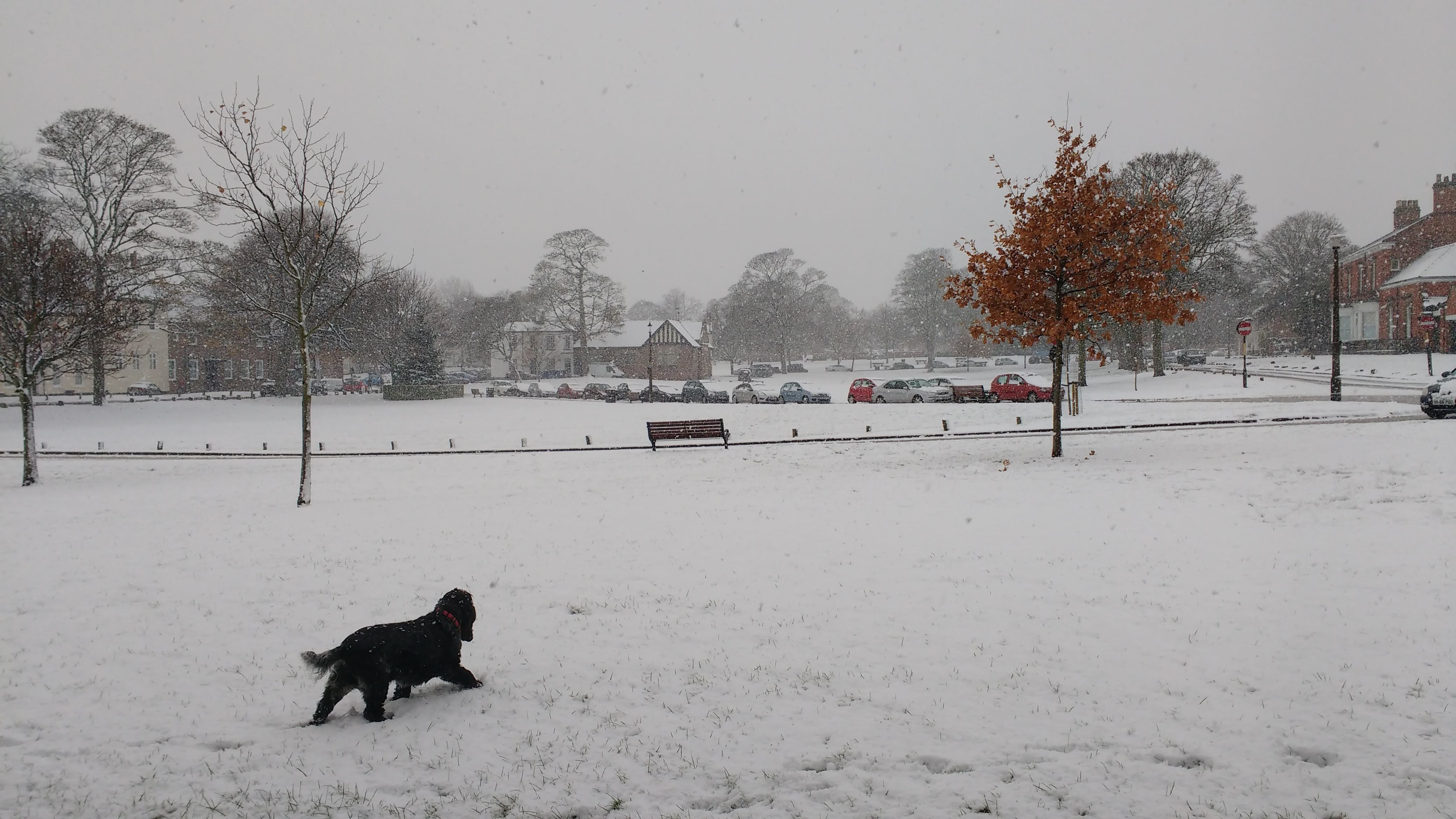 Norton